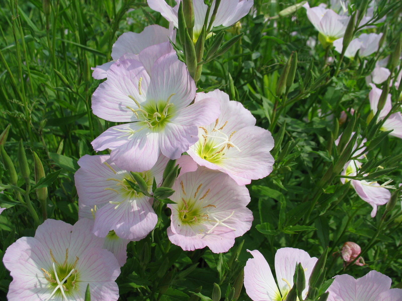 Photograph of Oenothera speciosa,taken in Odaiba, Tokyo, Japan.